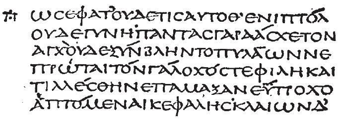 old greek papyrus